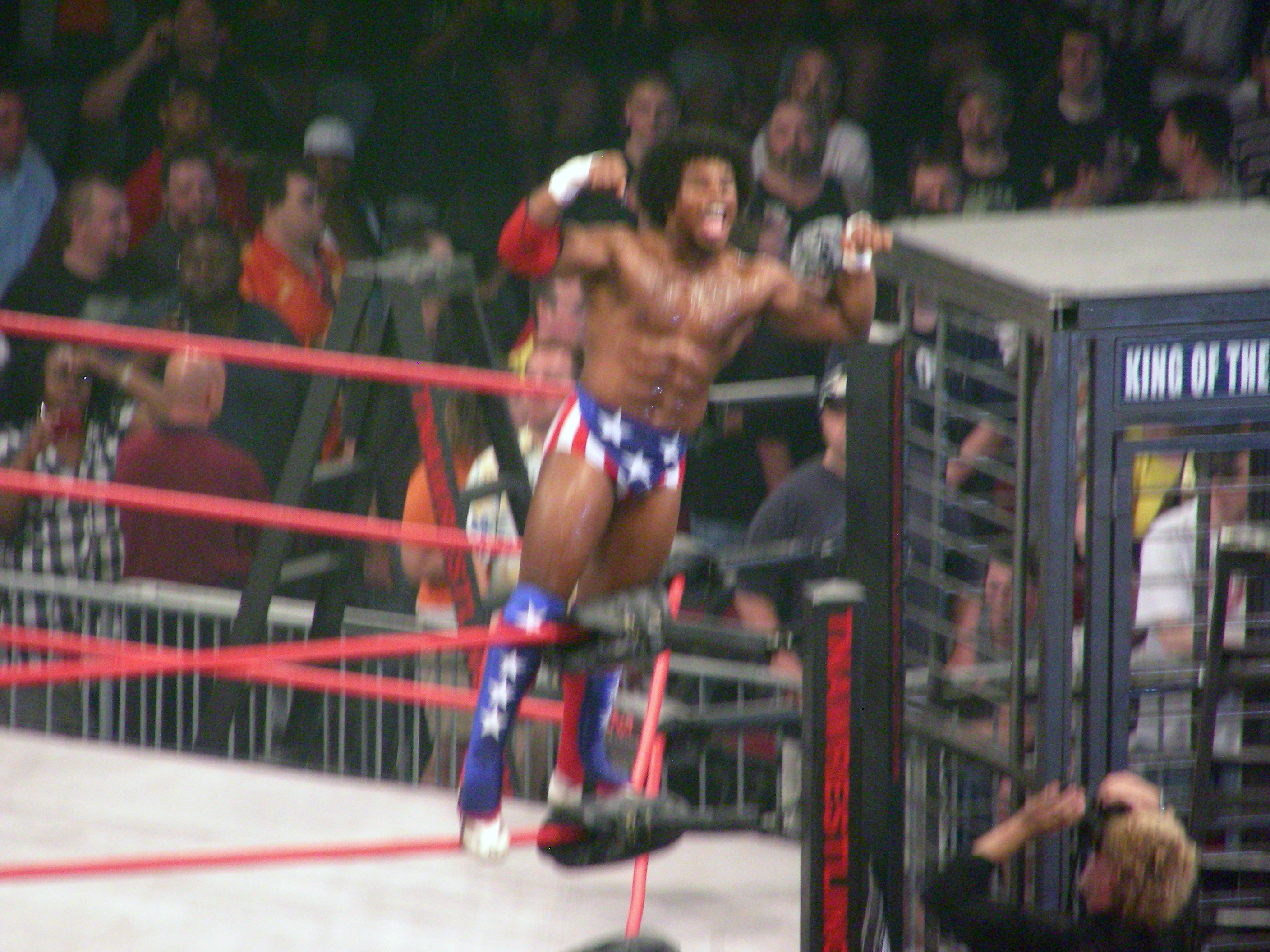 w:American professional wrestler Consequences Creed in the ring at Slammiversary 2009 held at The Palace of Auburn Hills, Auburn Hills, Michigan, USA.